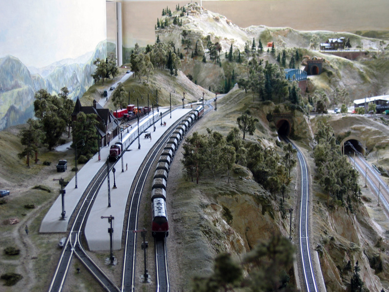 The model train set of the Deutsches Museum in Munich, Germany. I took this photo myself on April 29, 2005.